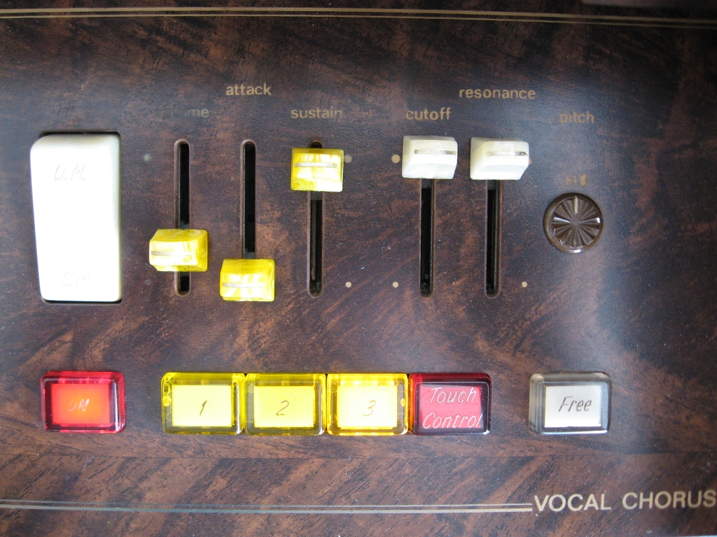 Farfisa Pergamon "Vocal Chorus"